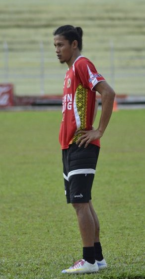 goal keeper semen padang